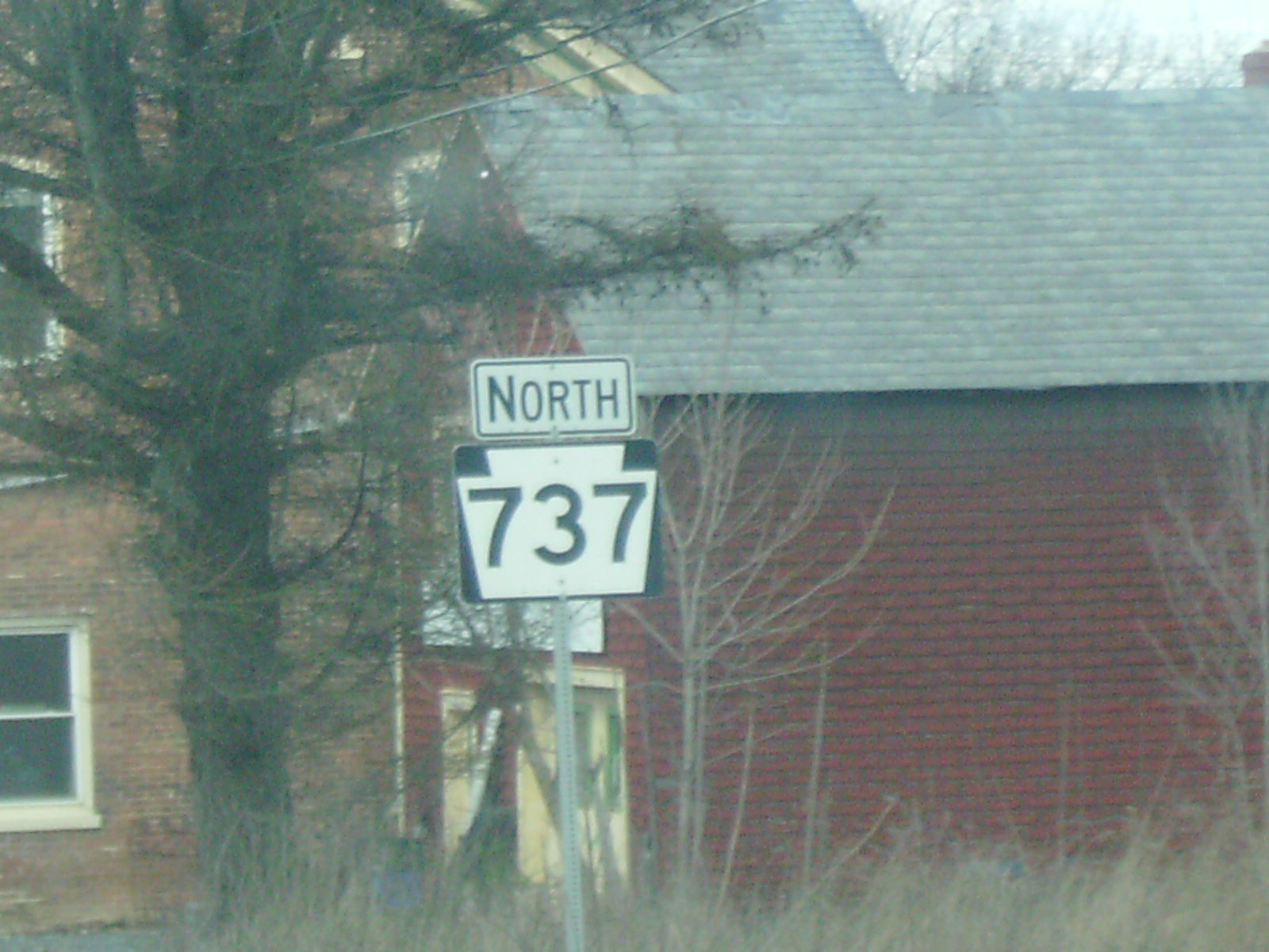 PA 737 heading northbound into Krumsville.